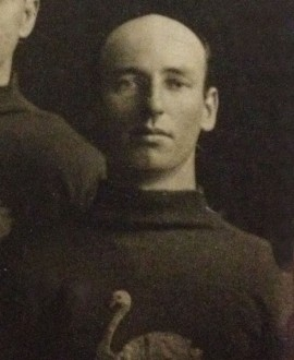 Photograph of Bill Cooke in 1912